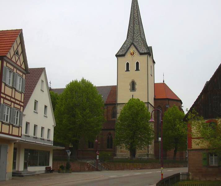 Church in Bühlerzell, Germany